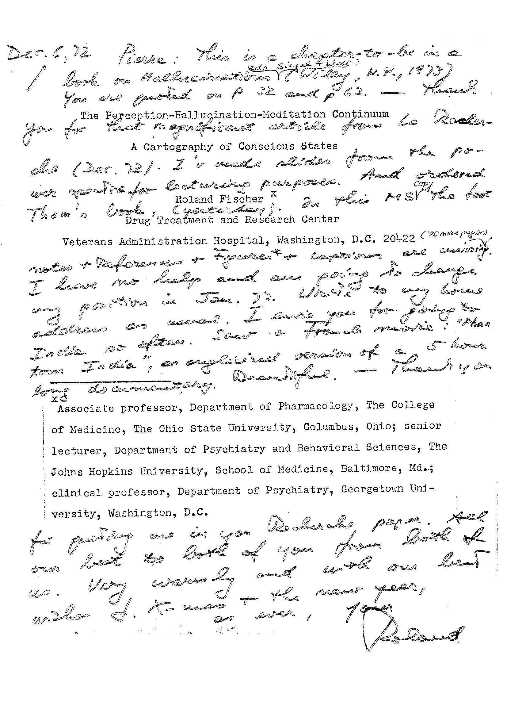 Pierre Etevenon alias WP Utilisateur:Pierre Raymond Esteve, has received a personal and friendly letter of Roland Fischer sent to Paris by post and dated of Dec. 6, 72. This manuscript letter was written over the first page of a pre-publication of a future chapter of Roland Fischer who was later published by Wiley in 1973 with the title: The Perception - Hallucination - Meditation Continuum . In this letter Roland Fischer informs Pierre Etevenon that he has referenced in this pre-pubiucation the first article of Pierre Etevenon published previously in the issue of La Recherche of december 1972 and entitled Les états de conscience modifiés volontairement (Modified states of consciousness induced voluntarely).